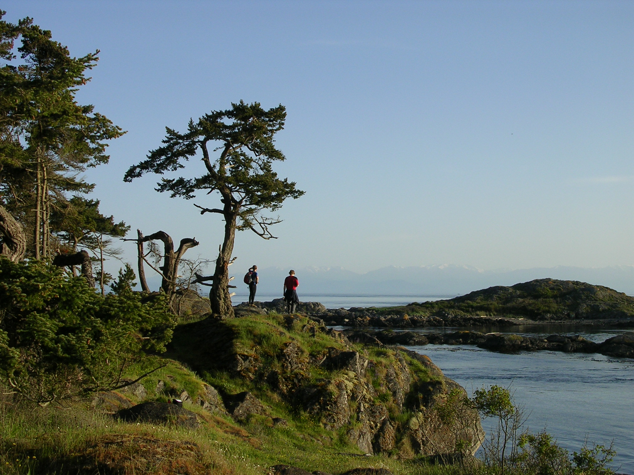 Shark Reef Park on Lopez Island, Washington, U.S.A.